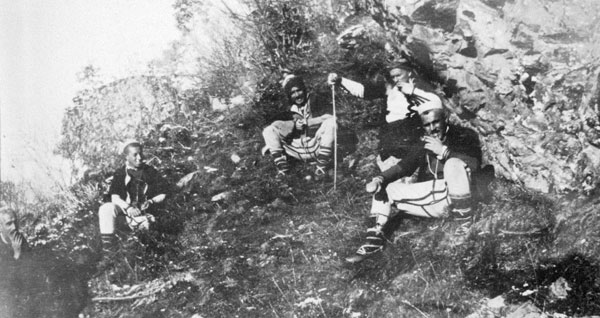 Men of Štrirovica, Macedonia conversing on a hillside.